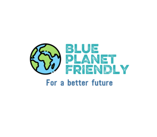 Blue Planet Friendly logo